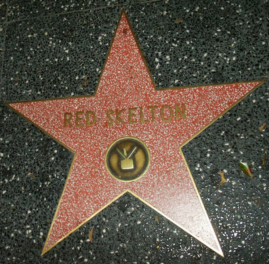 Hollywood Star on Hollywood Walk of Fame - Comedian actor Red Skelton - famed in movies to his own television shows - also a top selling artist known for his clown portraits This is Red Skelton's Hollywood Walk of Fame Star for his television work.